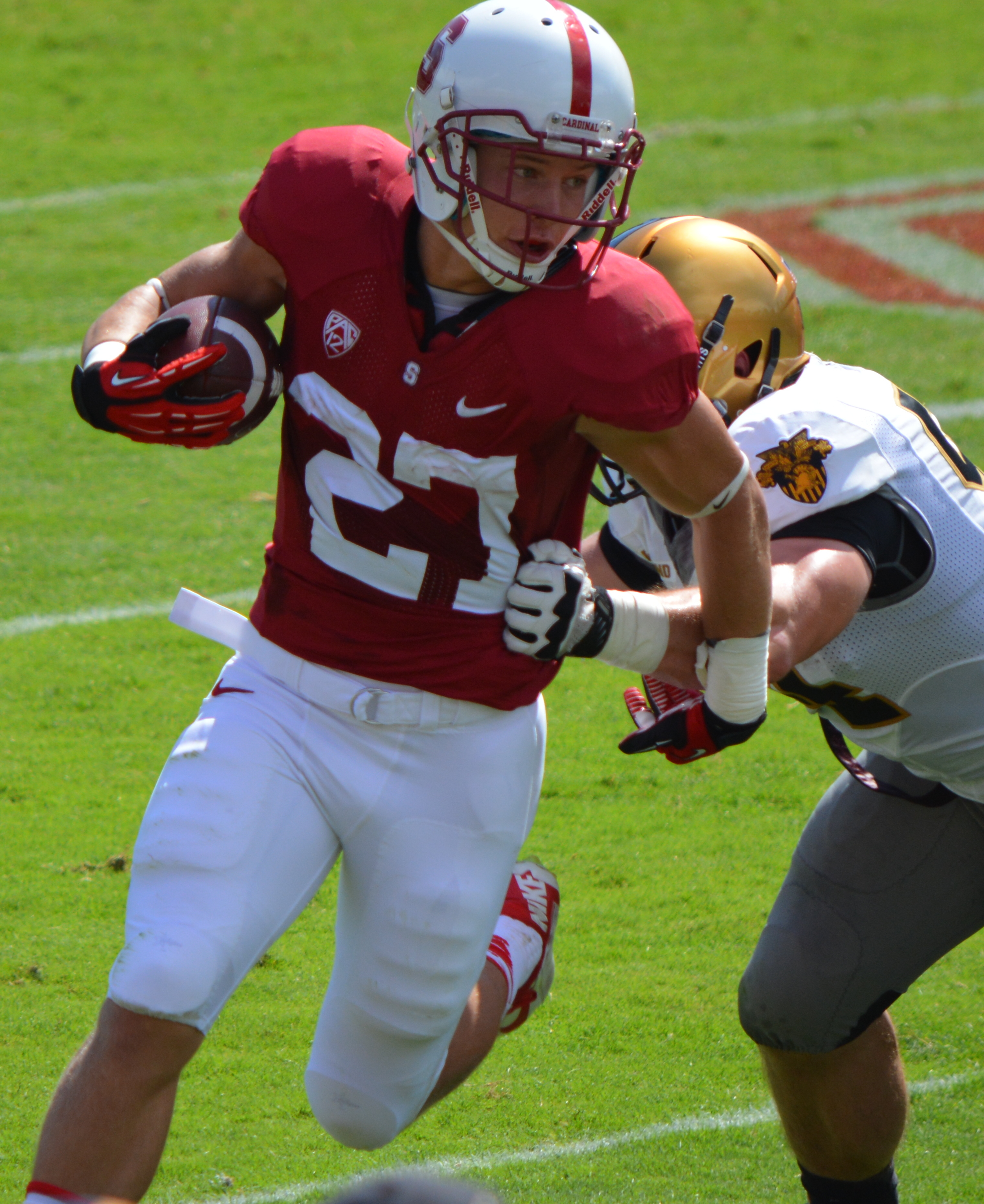 Stanford 35 Army 0